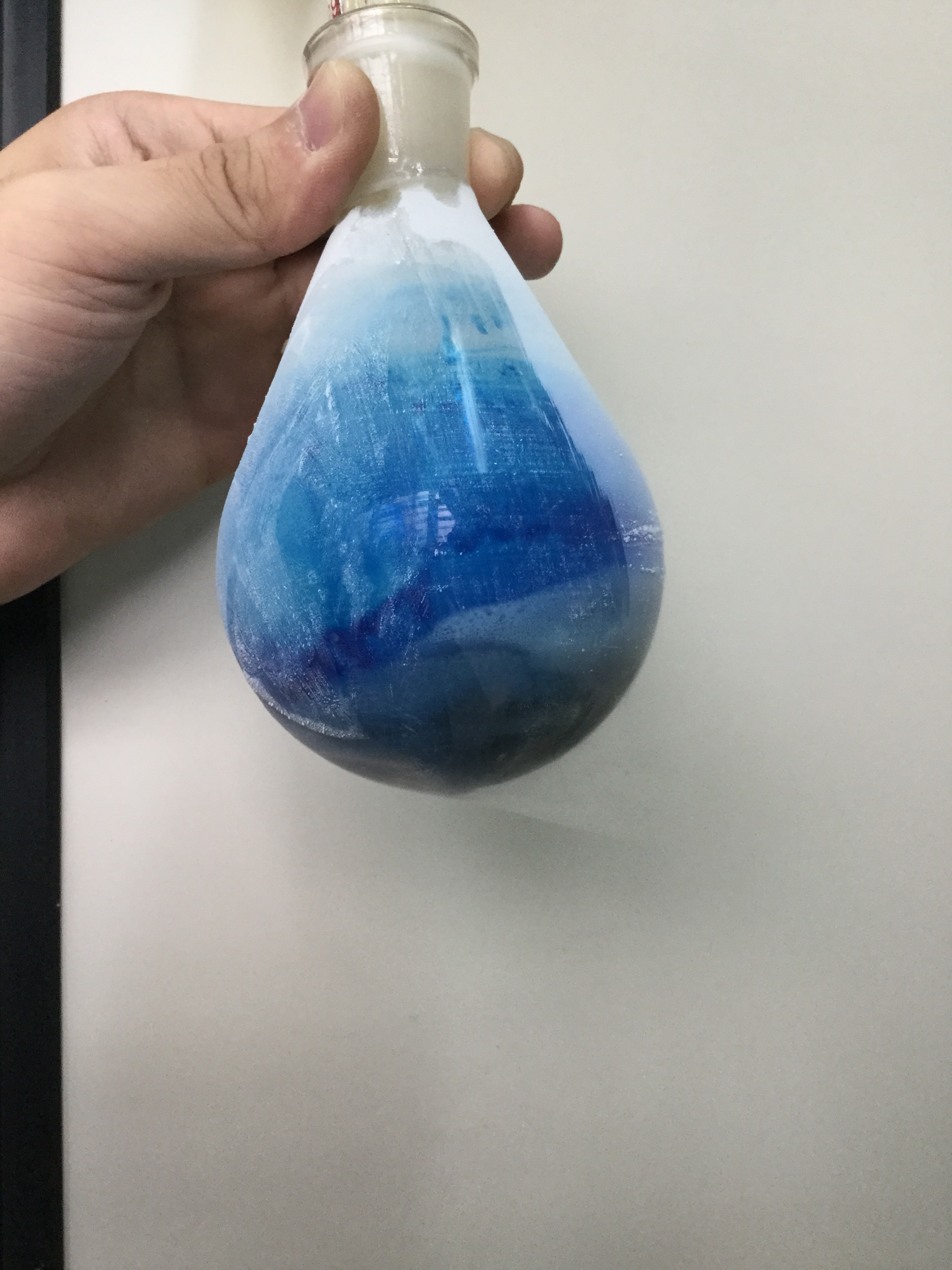 Beautiful nitrogen trioxide